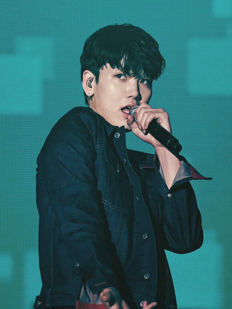 B.A.P's Zelo performing at the Daejeon Love Blue Concert on September 12, 2017.